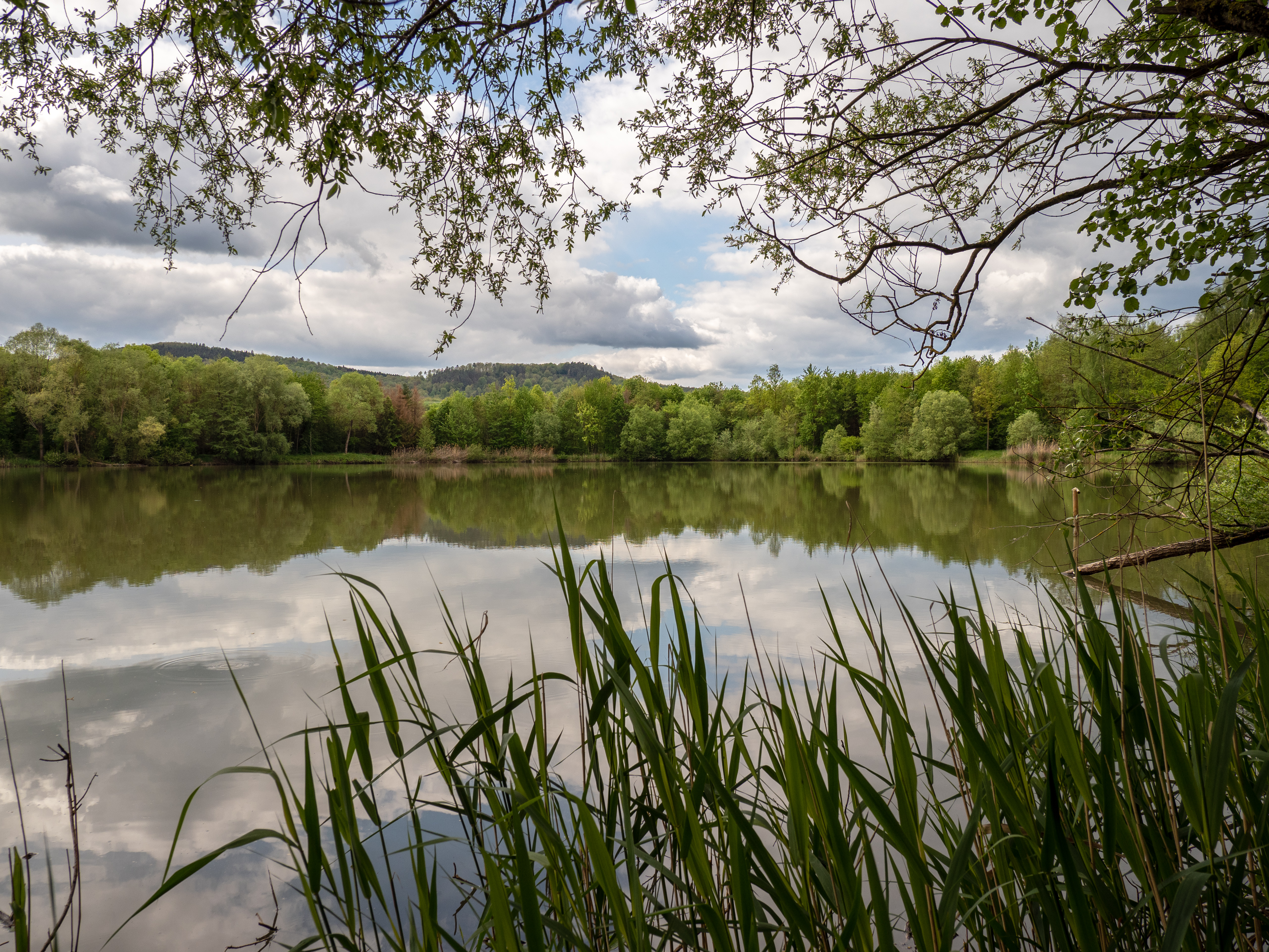 Mainaue near Oberau in the district of Lichtenfels